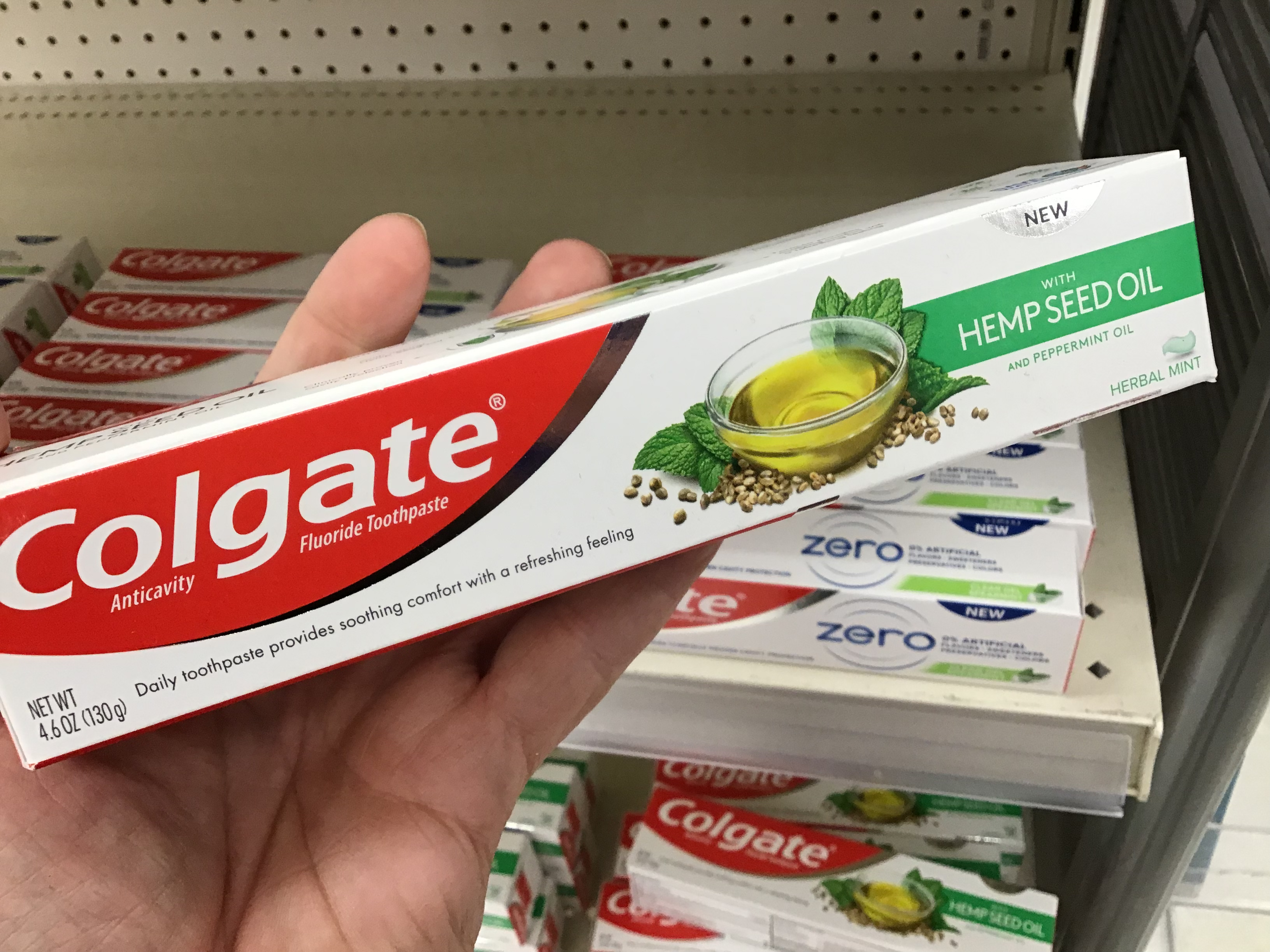 A box of colgate toothpaste with hemp oil